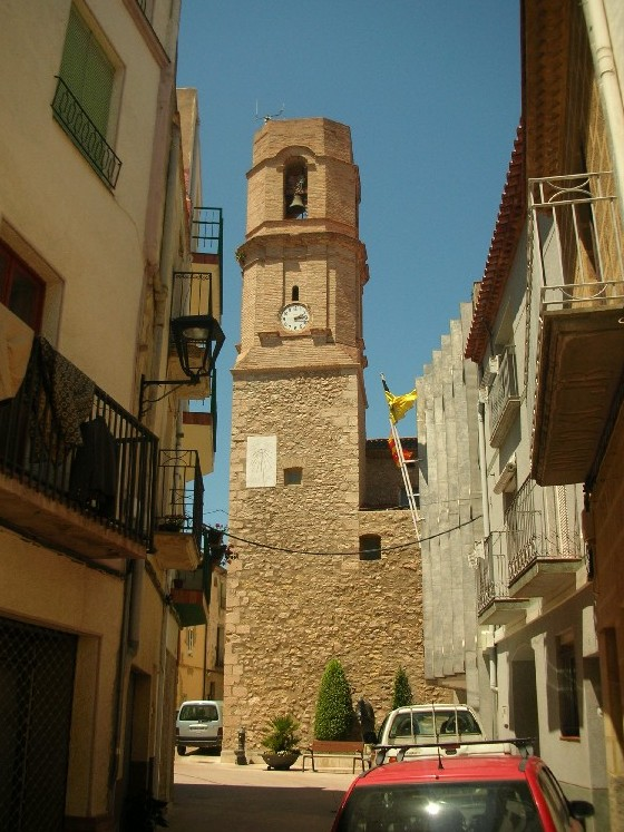 Vandellòs town, the church tower